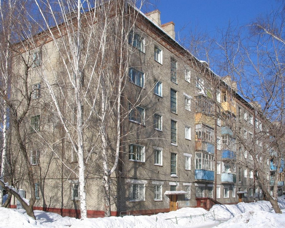 Brick Khrushchev house in Tomsk, Kievskaya str. Type 1-447-5.